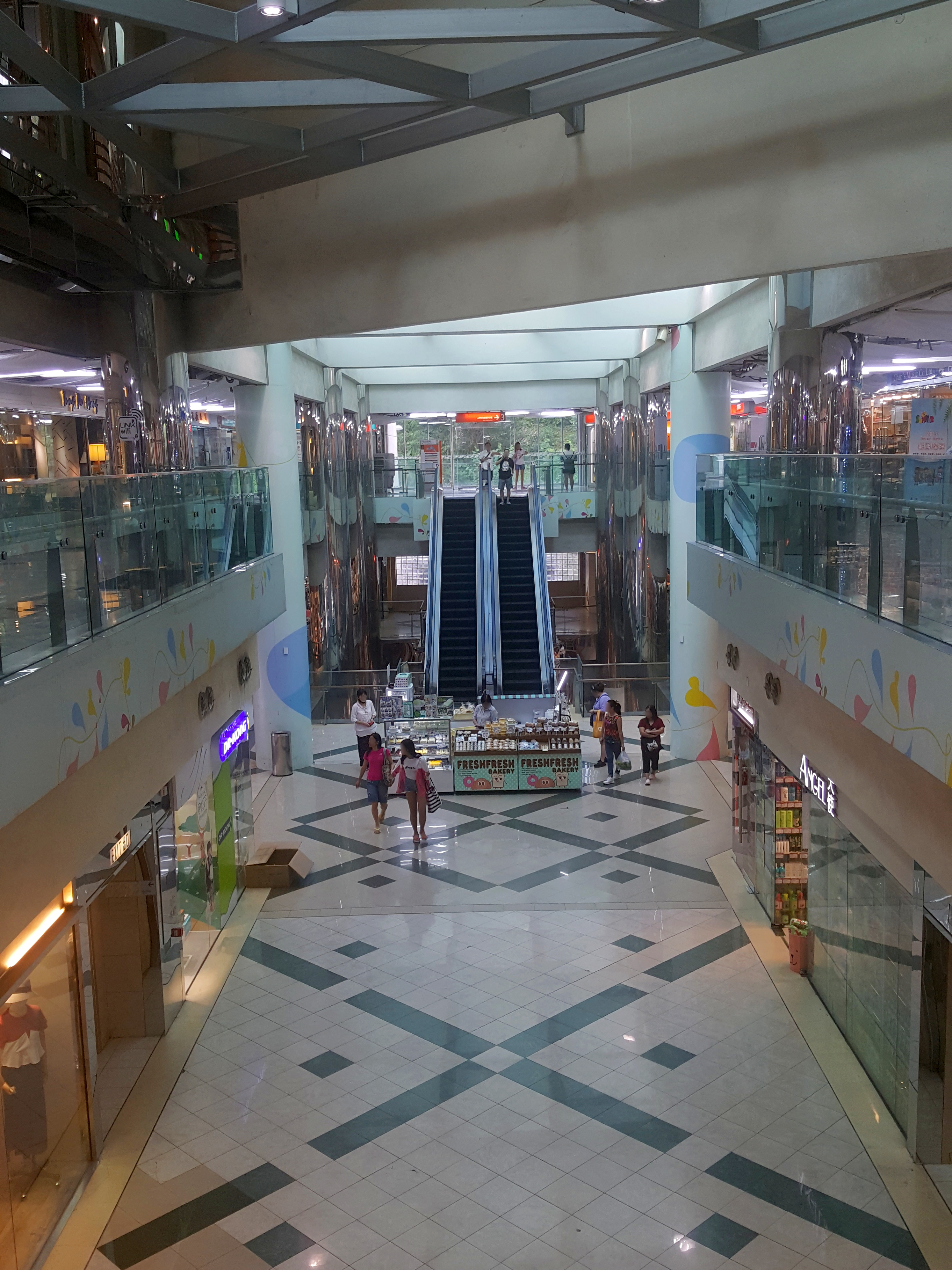 Second atrium of Kai Tin Shopping Centre old wing in Lam Tin, Hong Kong